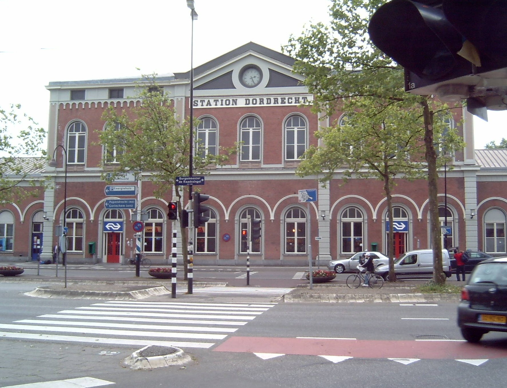 Dordrecht train station.